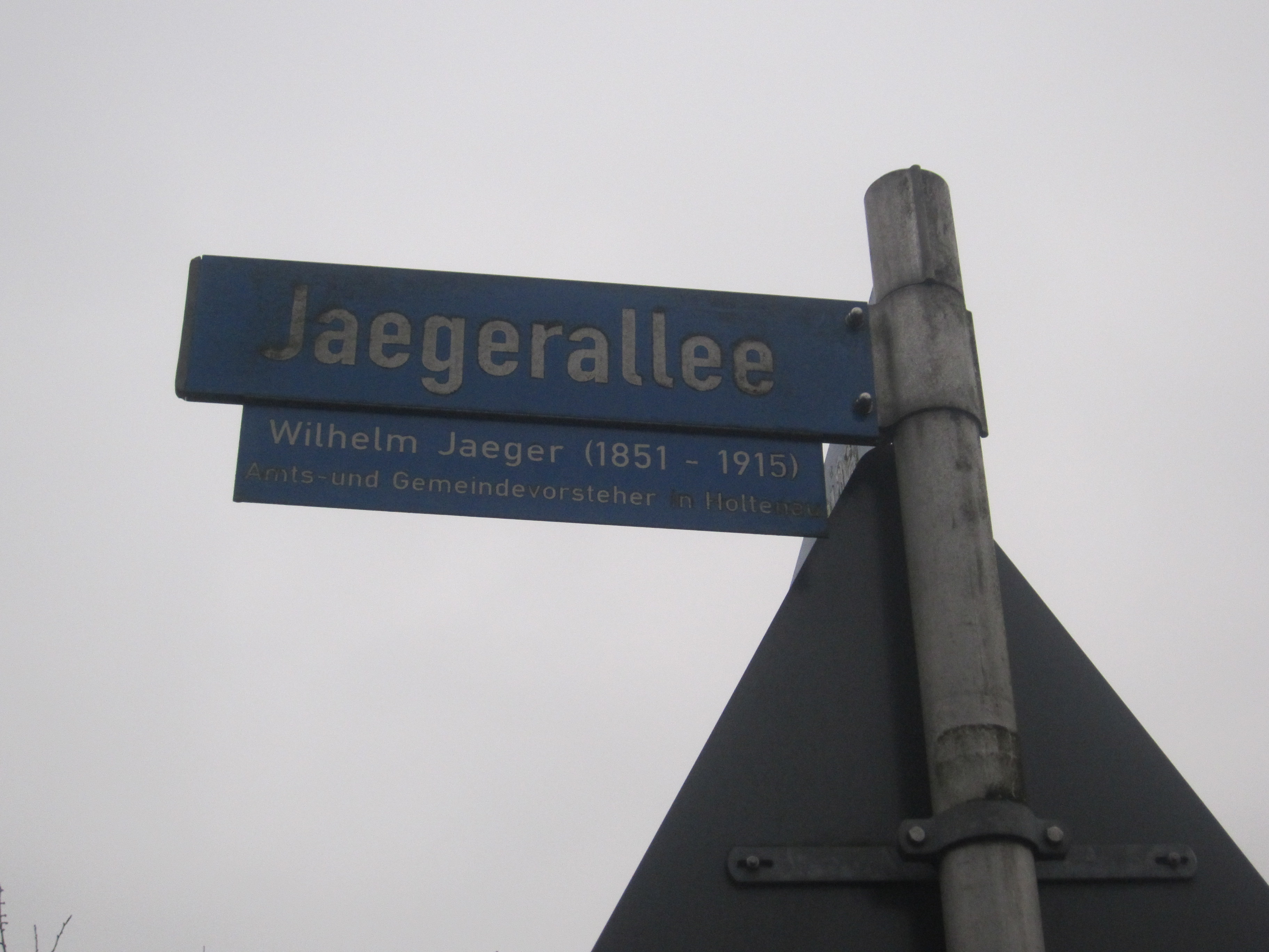 Street sign "Jaegerallee" in Kiel-Holtenau